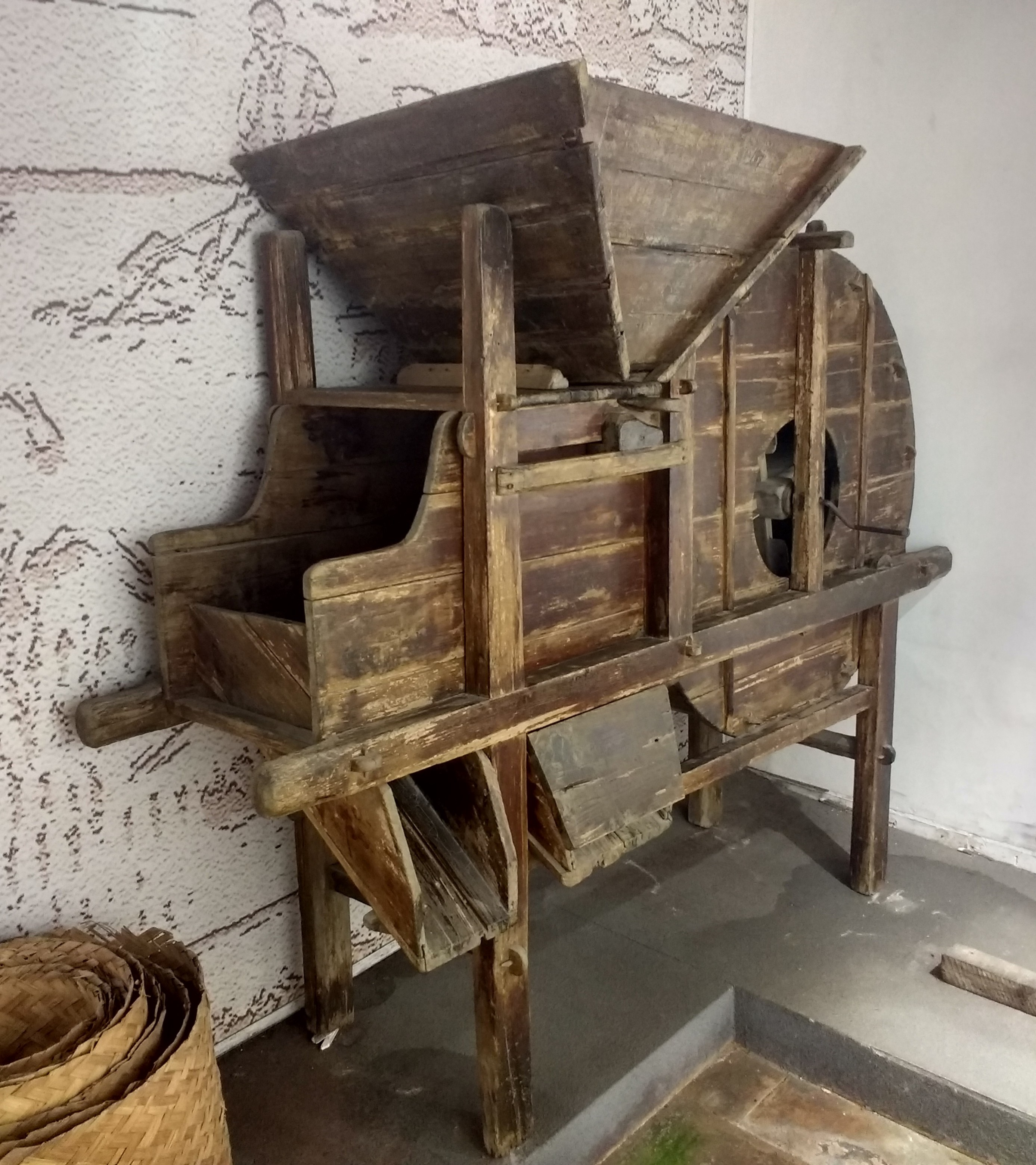 Winnowing machine at the Longgang Museum of Hakka Culture (Crane Lake Wei).